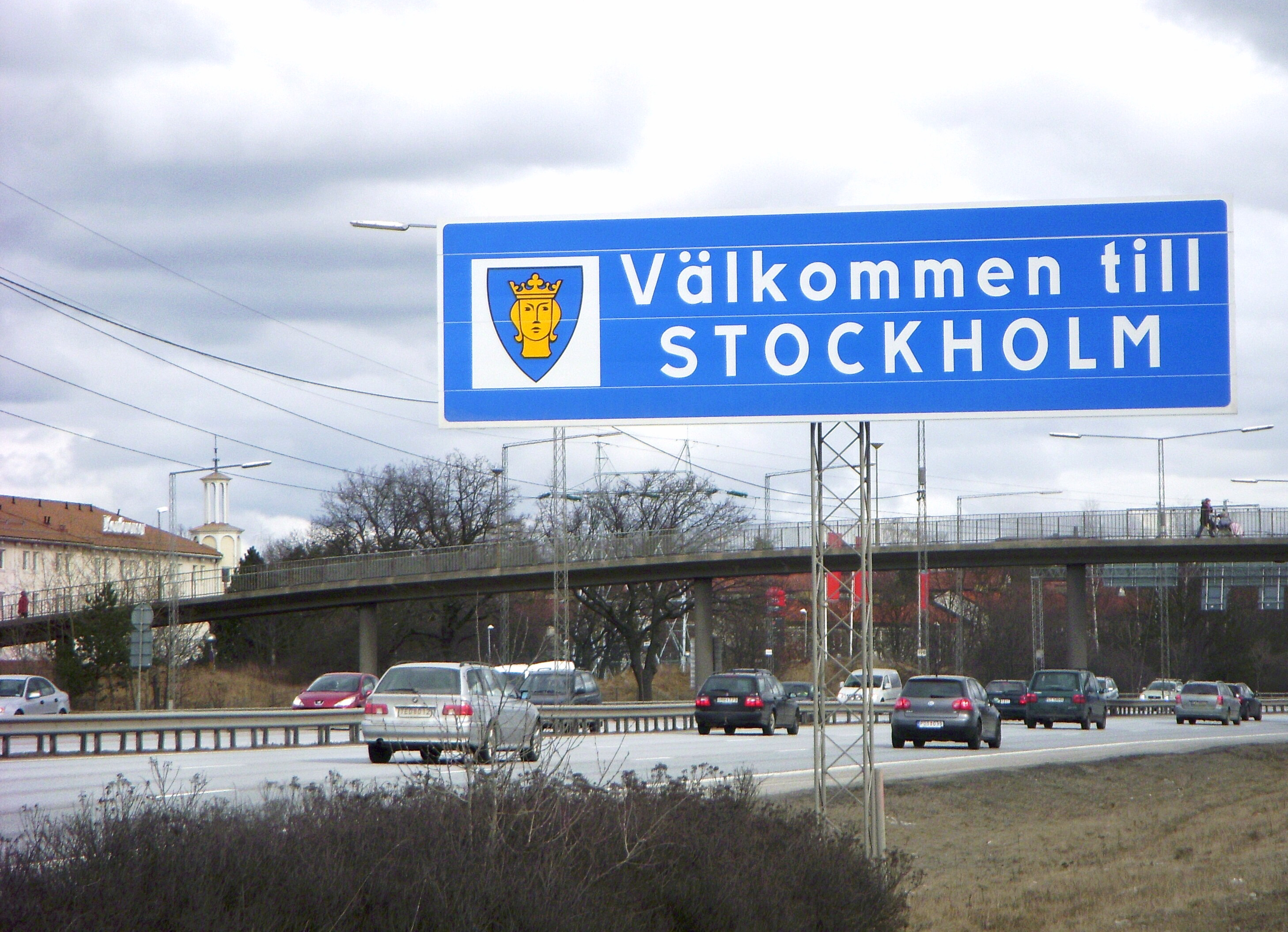 Road sign in Sweden saying "Welcome to Stockholm" showing the city's coat of arms, depicting king Eric IX of Sweden, patron saint of Stockholm (born circa 1120, dead 18 May 1160).